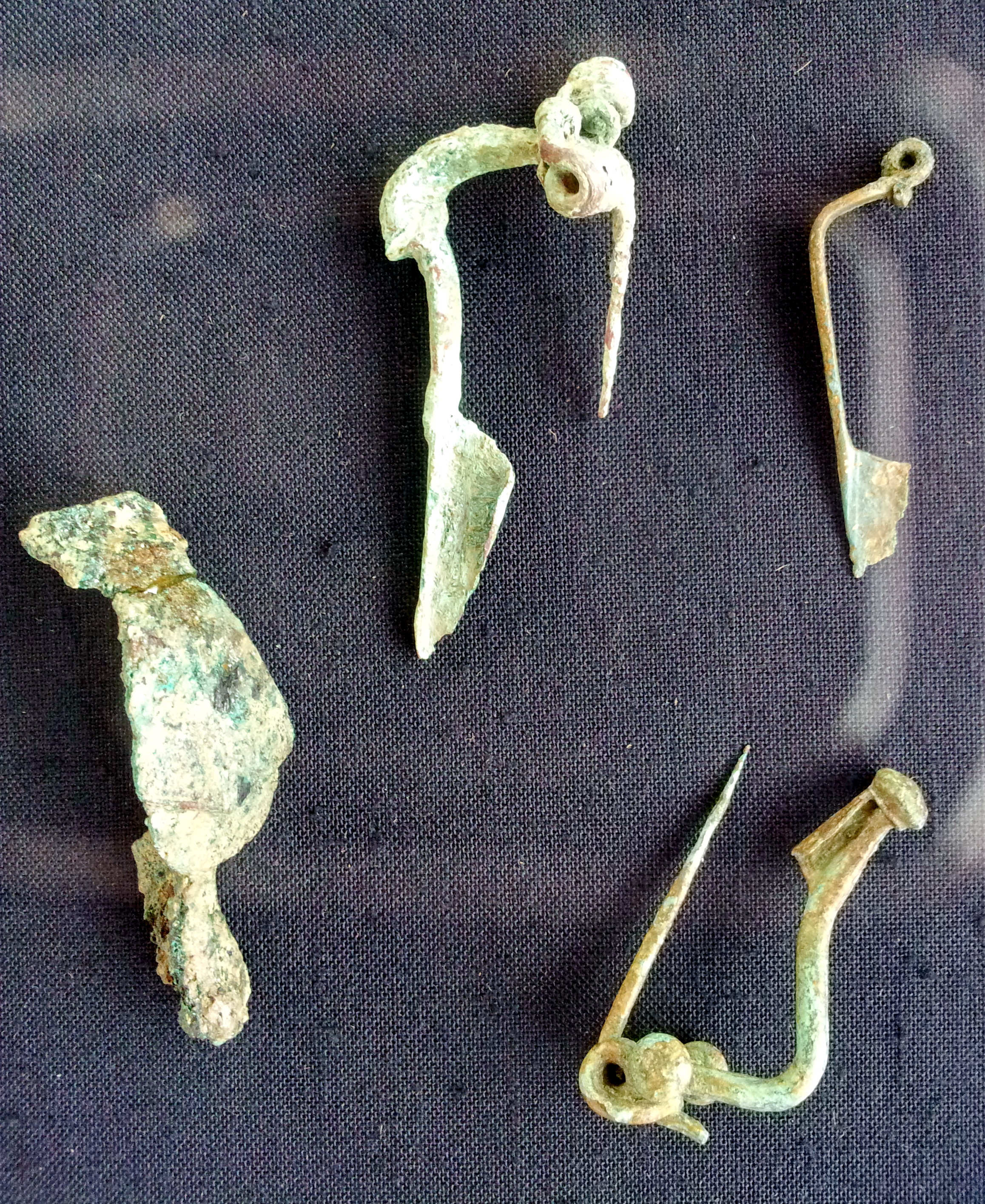 Early Roman fibulae from Coriovallum (present-day Heerlen, the Netherlands), 1st century AD.